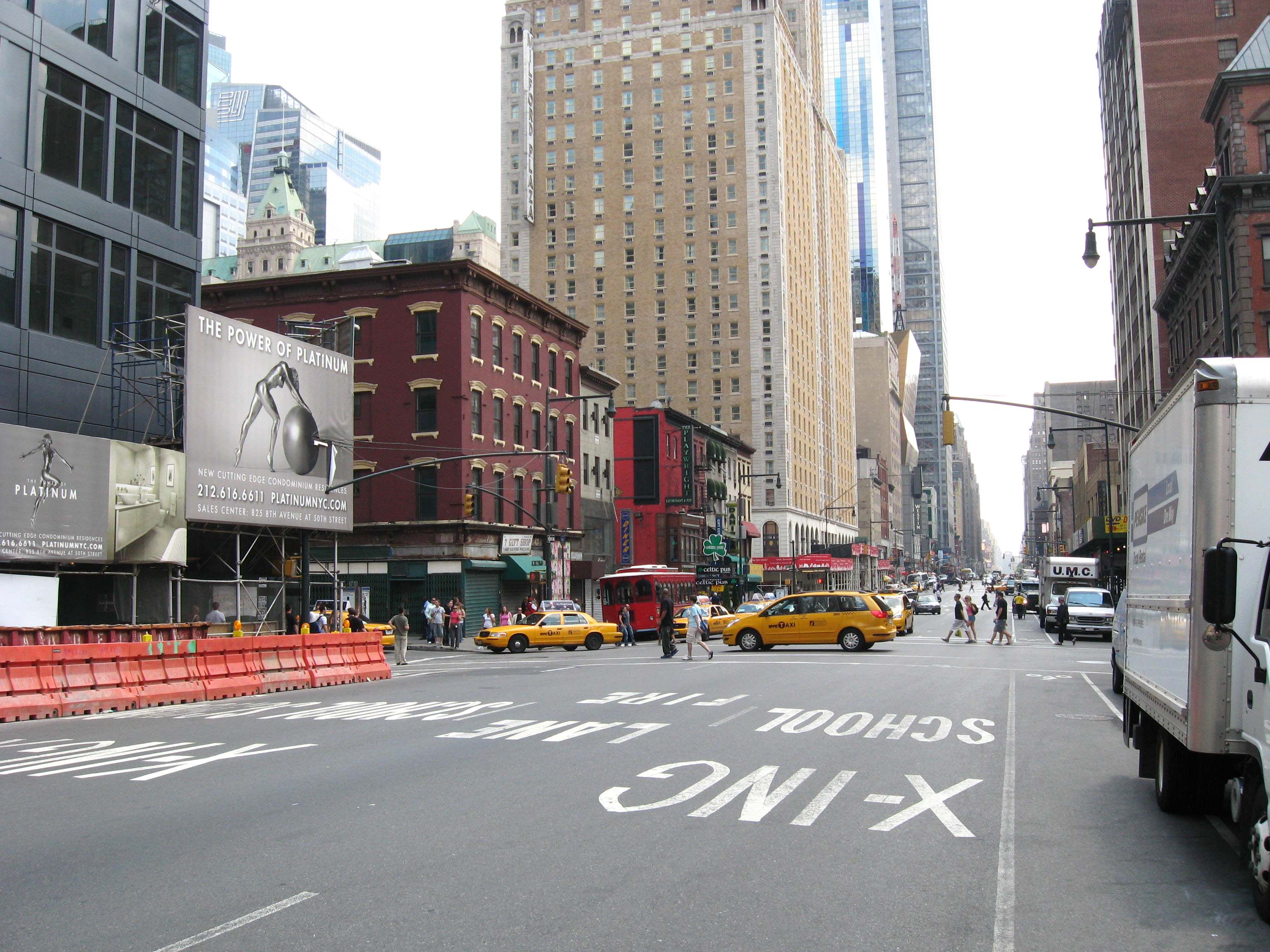 Looking south on the west side of Eighth Avenue (Manhattan) from south of 47th Street on a cloudy June 2008 afternoon. Replaced March 2009 by File:8th Ave, Manhattan.jpg for the 8th Avenue article. ZIP 10036.